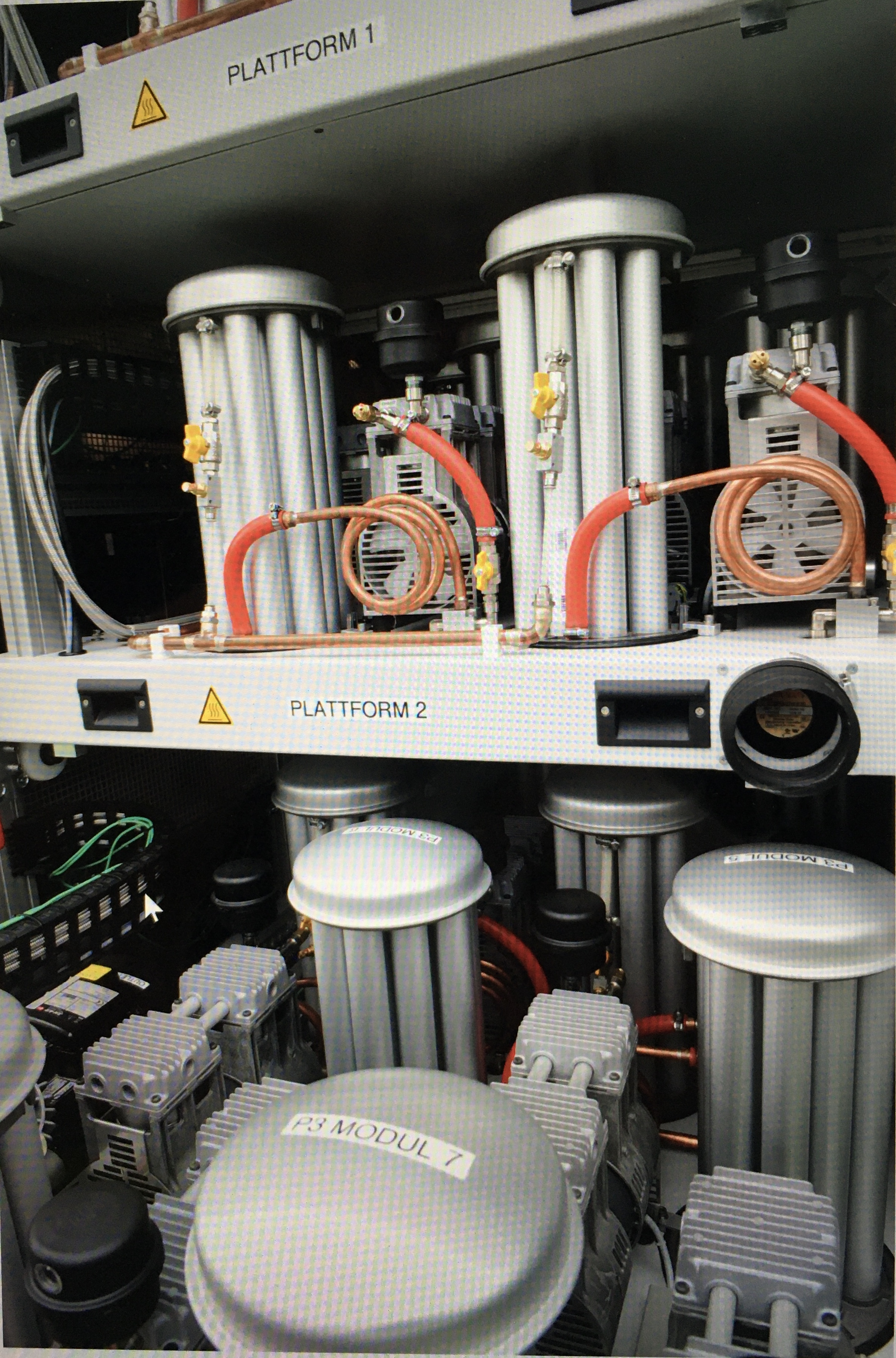 Modern FS360 lpm multi molecular sieve multi platform oxygen concentrator